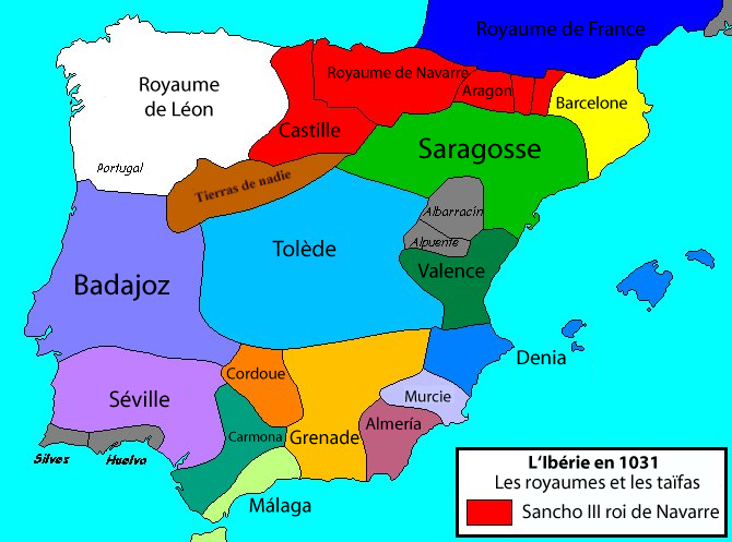 translation in french of [1] (french wikipedia)